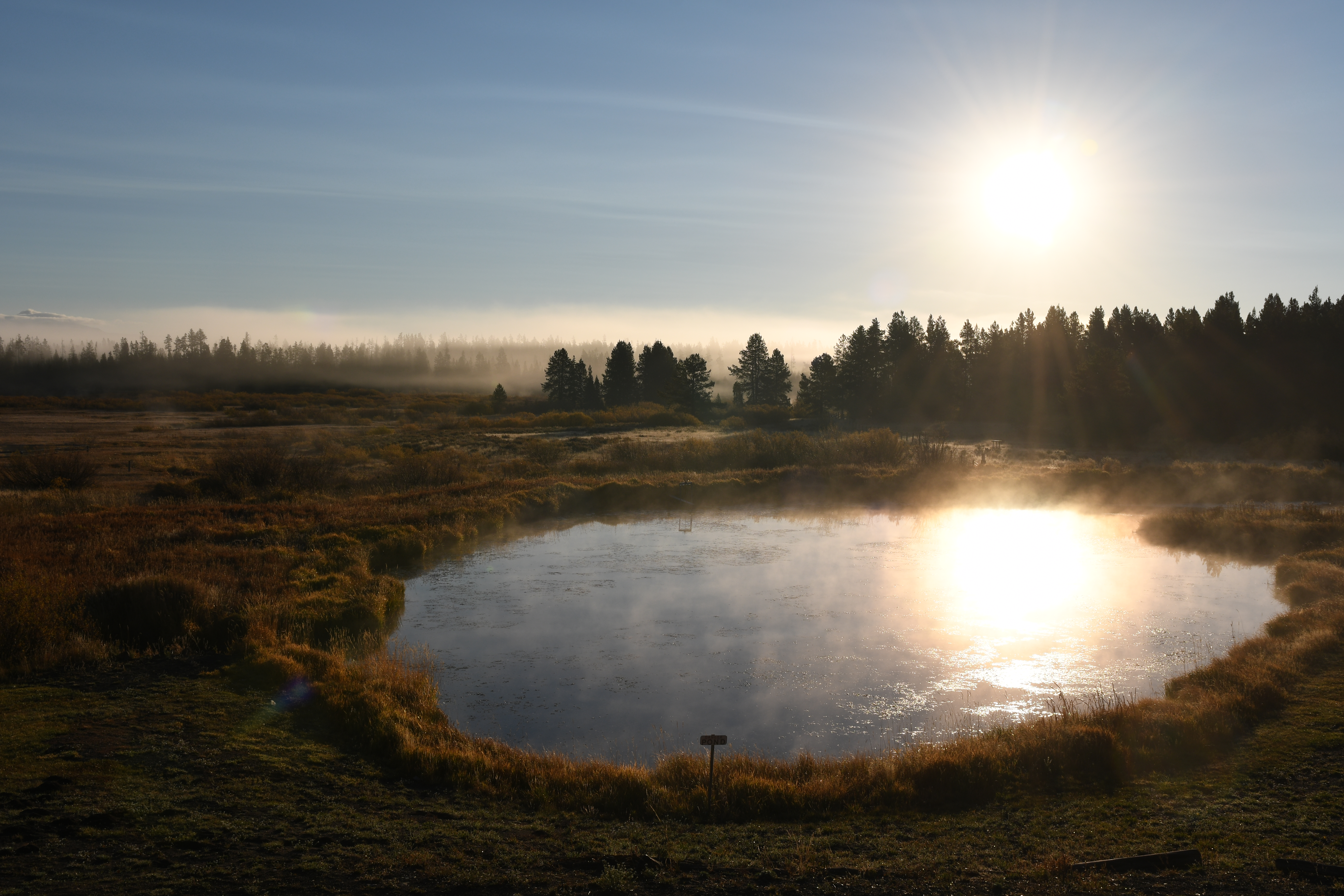 West Yellowstone landscape during late September as the sun rises above a pond.